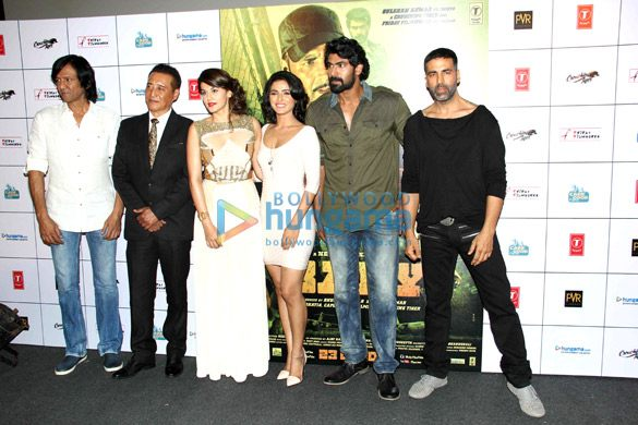 Baby's team at the film's trailer launch